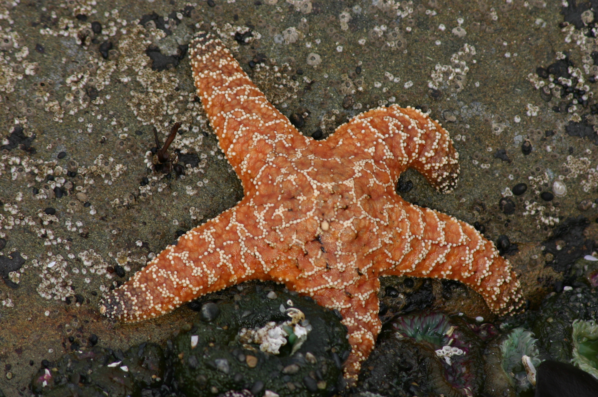 purple sea star, ochre sea star or ochre starfish clinging to the rock at low tide